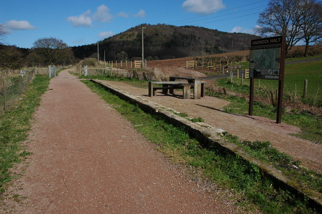 Hadnock Halt Hadnock Halt was formerly a stop on the Wye valley Railway which closed to passengers in 1959, the track is now a cycle way between Monmouth and Symonds Yat. On the wooded hill in the background, just to the left of the electric pole the letters 'ER' commemorating the coronation of Elizabeth II can be seen.